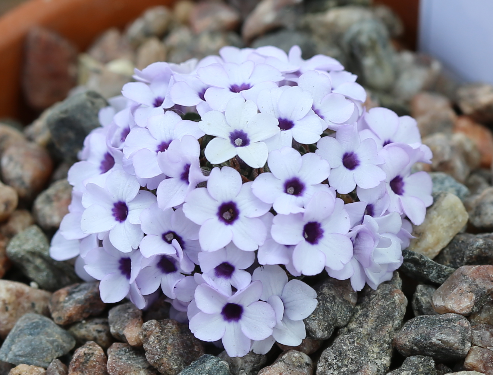 Dionysia afghanica at Gothenburg Botanical Garden in 2015. Plant id: 1984-3684 p Z -- Watson, E